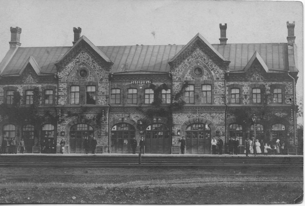 Train station (Kamianske)